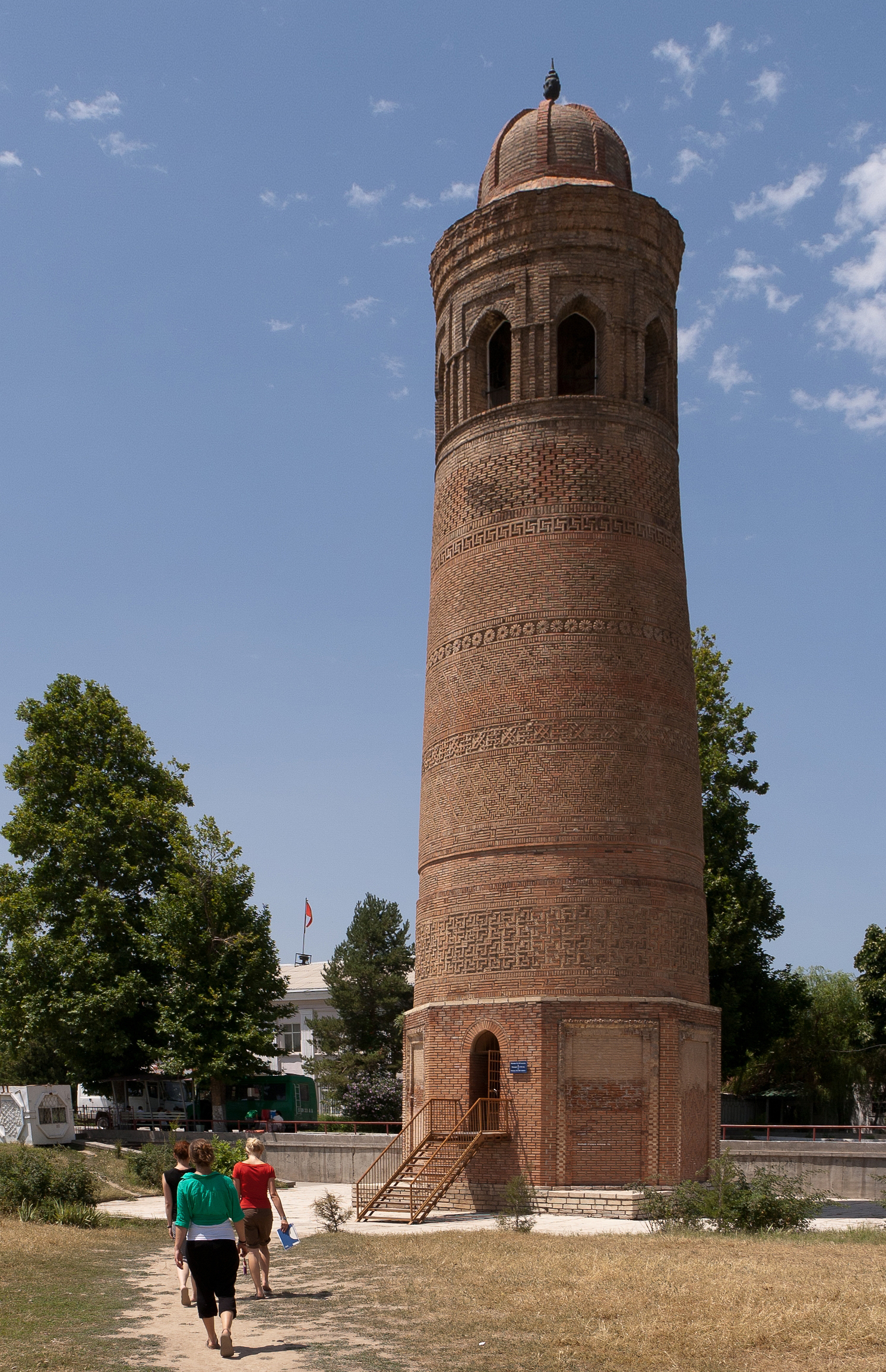 Minaret at the Uzgen archeological architectural museum ensemble, Kyrgyzstan